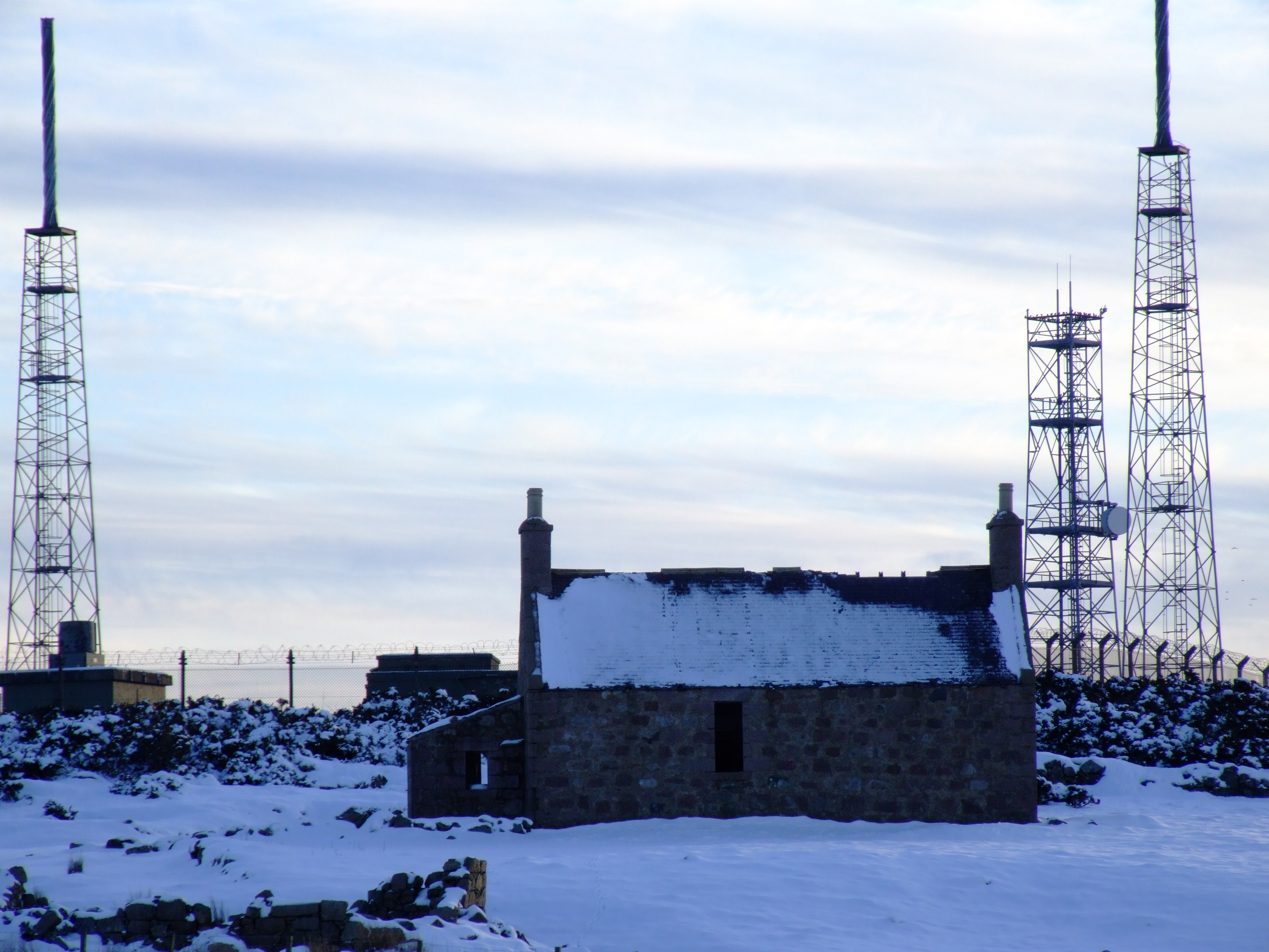 Derelict Cottage A derelict cottage just outside the perimeter of the base at RAF Buchan's aerial masts.